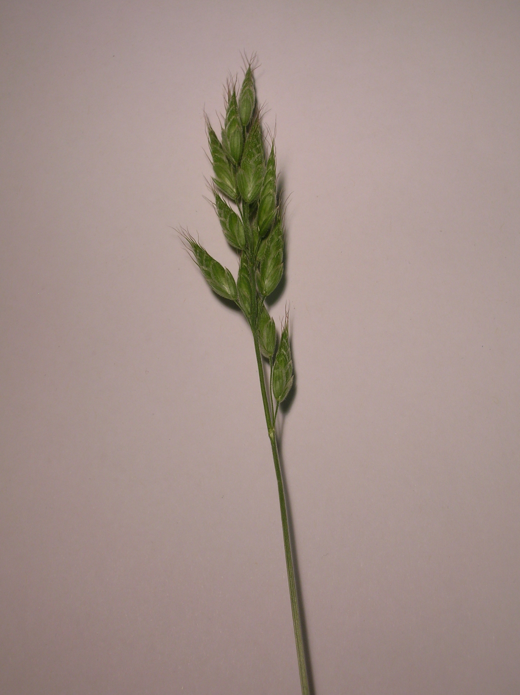 The panicle and spikelets of Bromus commutatus, the Meadow Brome. Spier's, Beith, Ayrshire, Scotland.